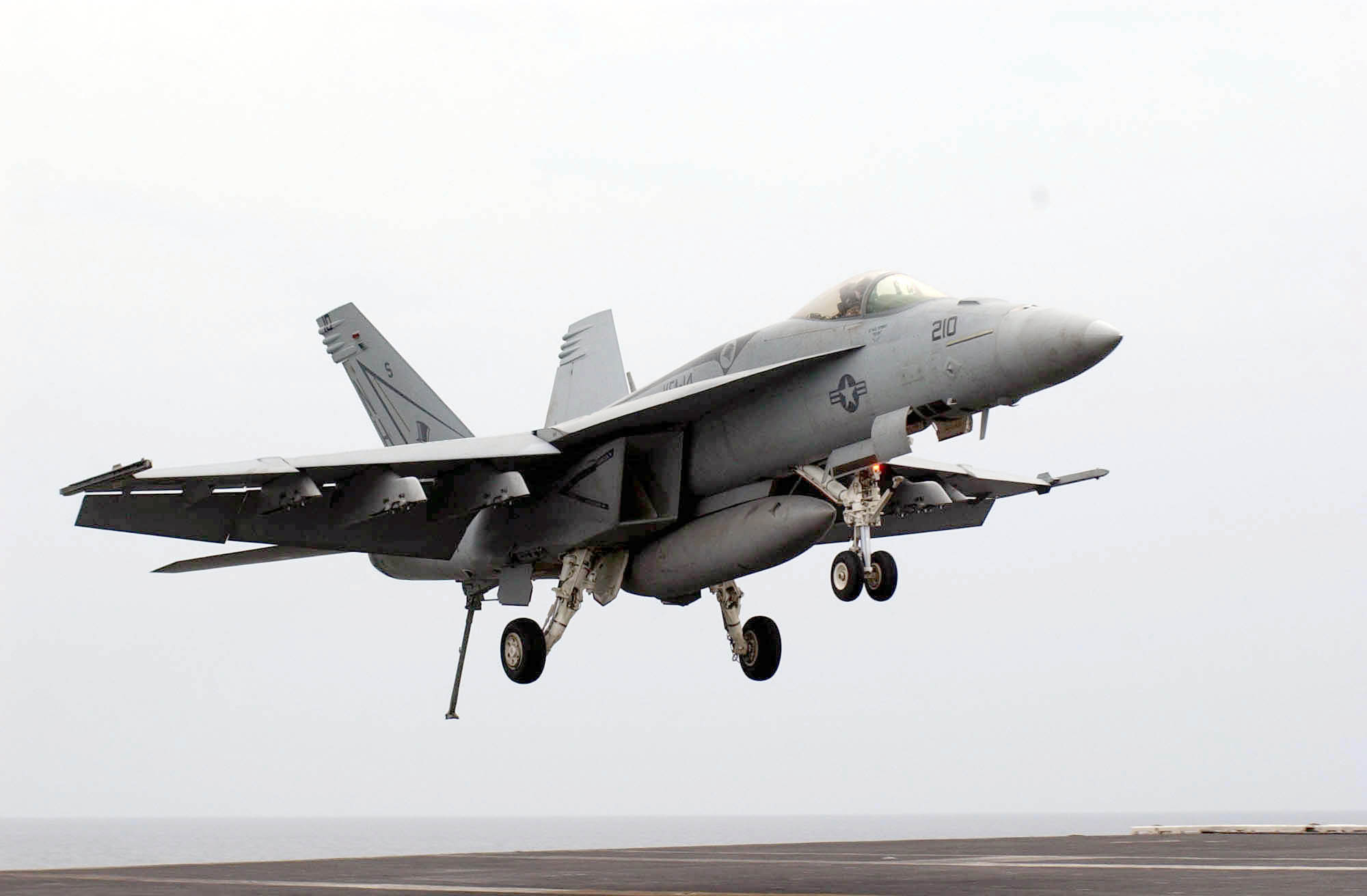 The Arabian Gulf (Apr. 13, 2003) -- An F/A-18E assigned to the “Tophatters” of Strike Fighter Squadron Fourteen (VFA-14) approaches the flight deck for an arrested landing aboard USS Nimitz (CVN 68). Nimitz and Carrier Air Wing Eleven (CVW-11) are deployed conducting combat missions in support of Operation Iraqi Freedom. Operation Iraqi Freedom is the multi-national coalition effort to liberate the Iraqi people, eliminate Iraq's weapons of mass destruction, and end the regime of Saddam Hussein. U.S. Navy photo by Photographer's Mate 2nd Class Michael J. Pusnik, Jr. (RELEASED)